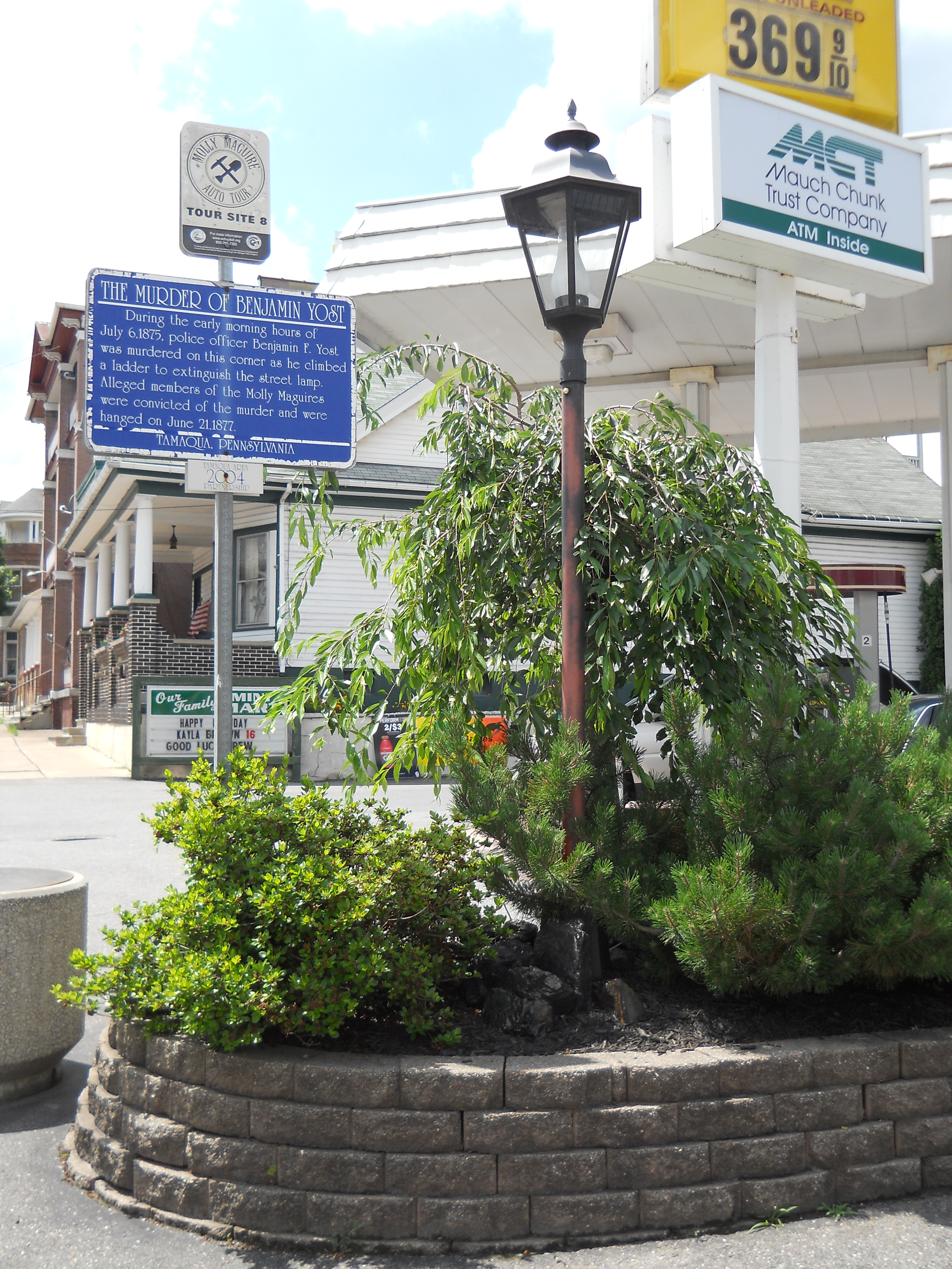 Memorial of Benjamin F. Yost. The police officer was murdered on the corner of Broadway and N. Lehigh Rd. (Tamaqua, PA) on July 6, 1875 by members of Molly Maguires.